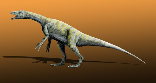 Panphagia